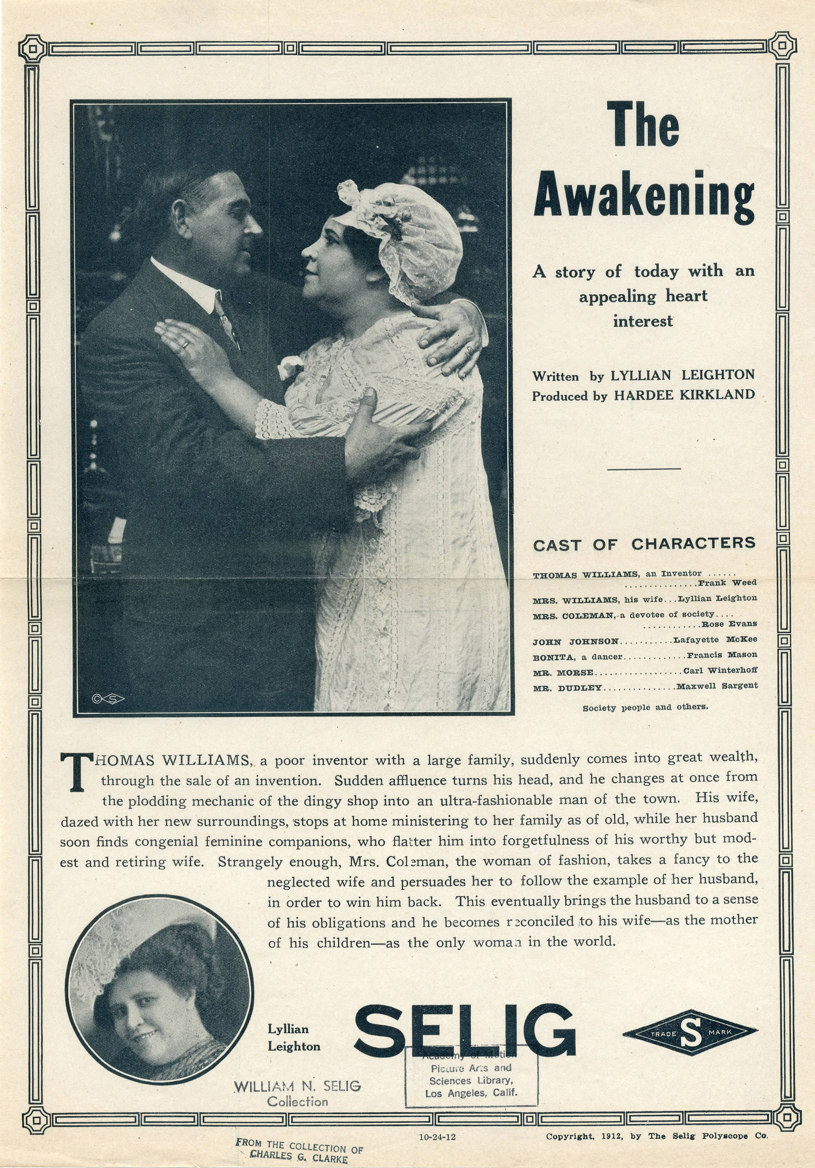 Release flier for THE AWAKENING, 1912